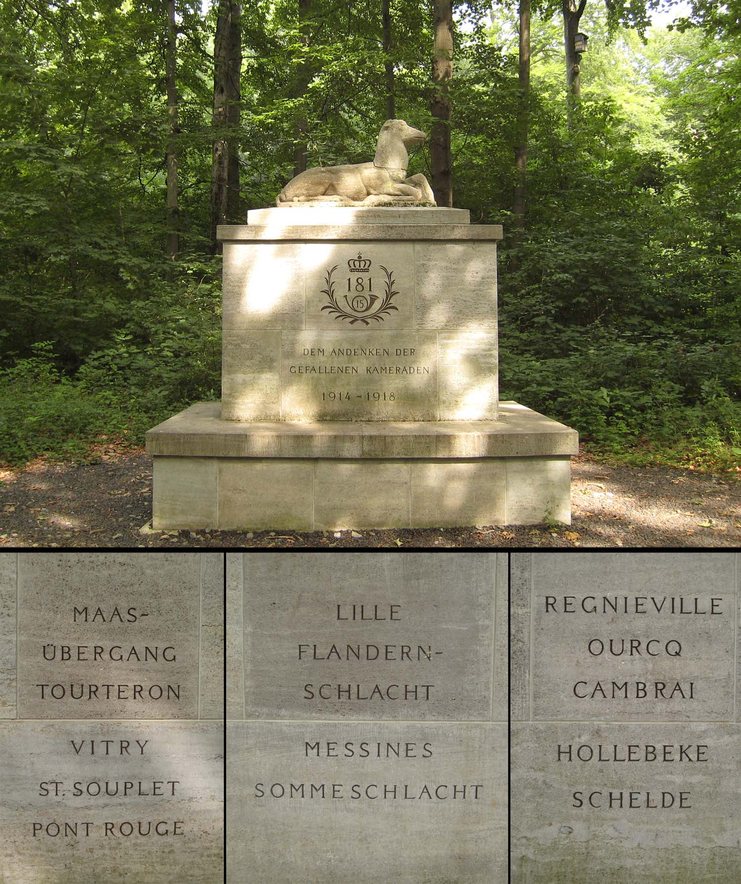 First World War-Memorial for 15th Royal Saxon Infantry Regiment Nr. 181 in Chemnitz (Saxony)